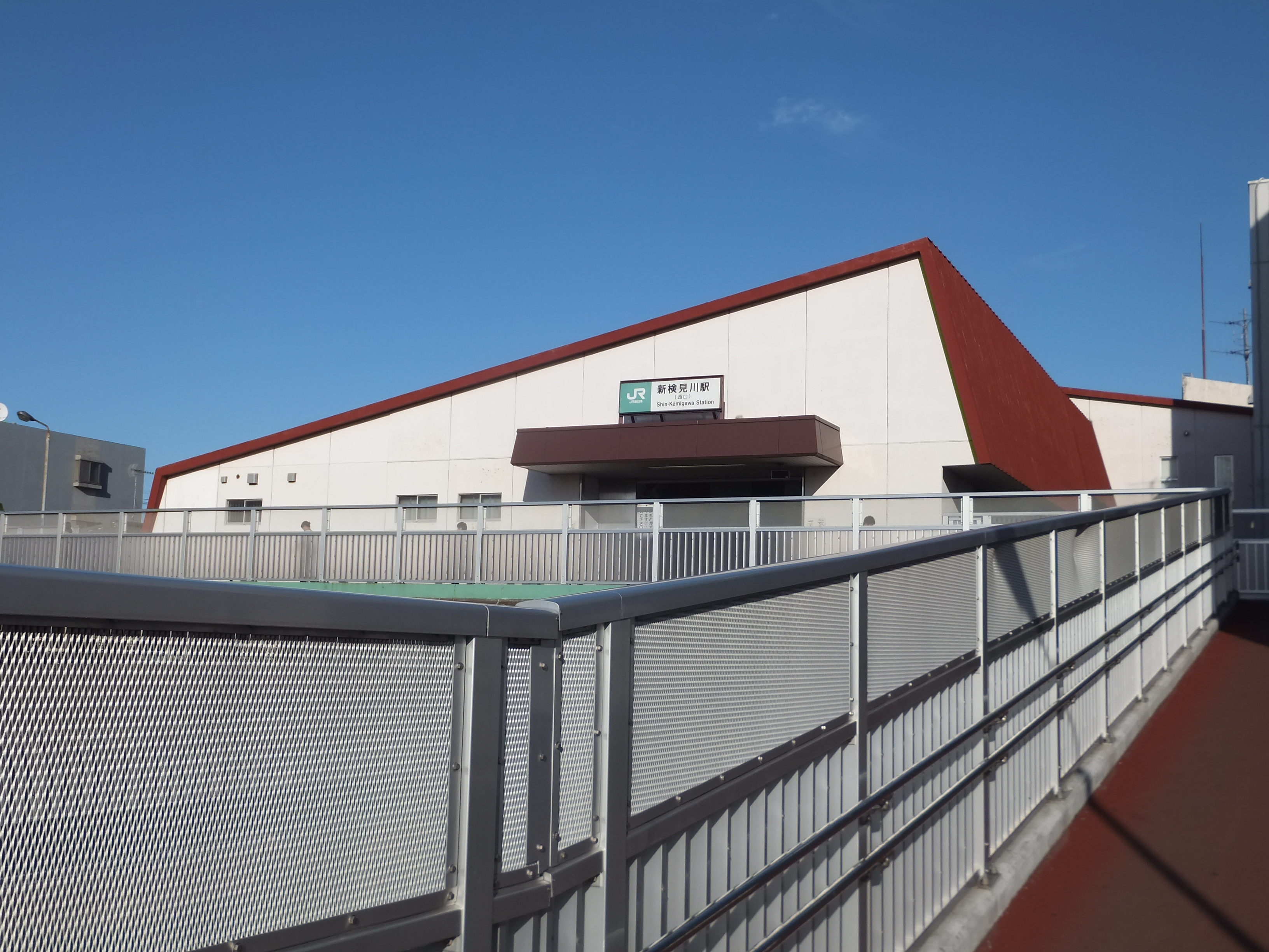 West exit of Shin-Kemigawa Station on the Chūō-Sōbu Line, in Hanamigawa-ku, Chiba, Chiba, Japan